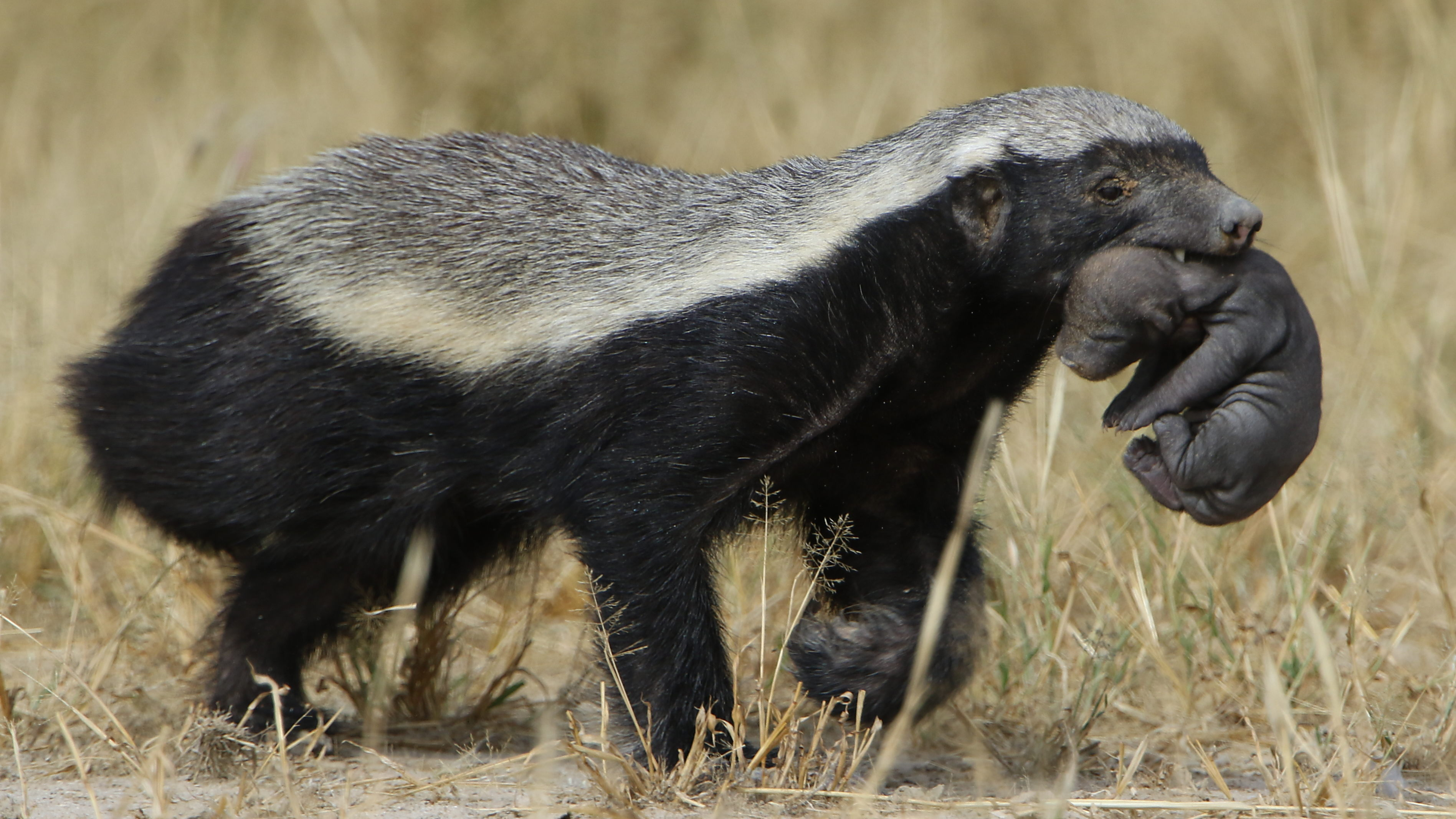 Honey badger, Mellivora capensis, carrying young pup in her mouth at Kgalagadi Transfrontier Park, Northern Cape, South Africa